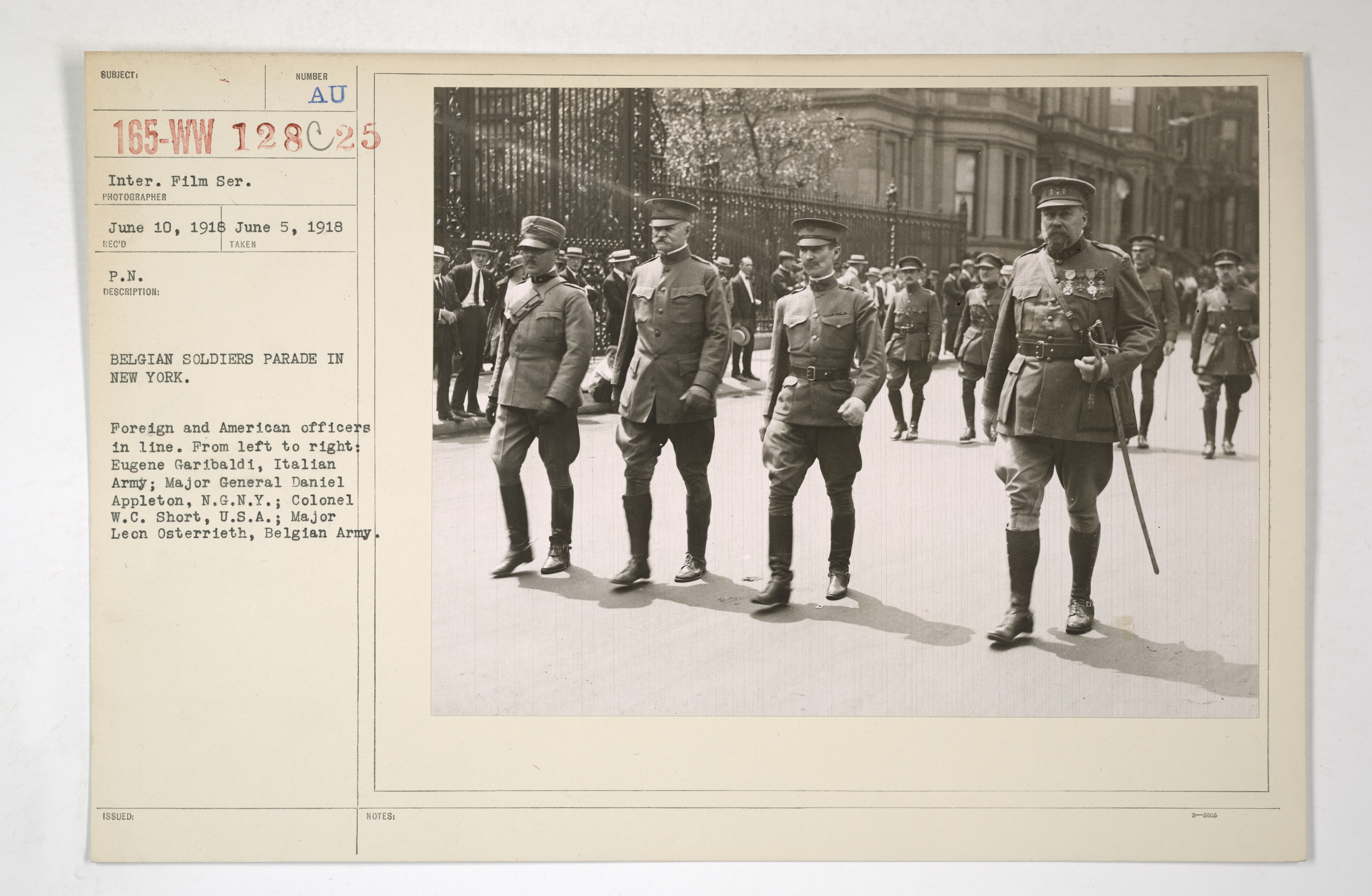 Scope and content: Original Caption: Belgian soldiers parade in New York. Foreign and American officers in line. From left to right: Eugene Garibaldi, Italian Army; Major General Daniel Appleton, N.G.N.Y.; Col1l W.C. Short, U.S.A.; Major Leon Osterrieth, Belgian Army. Date Taken: 5/5/1918 Photographer: International Film Service